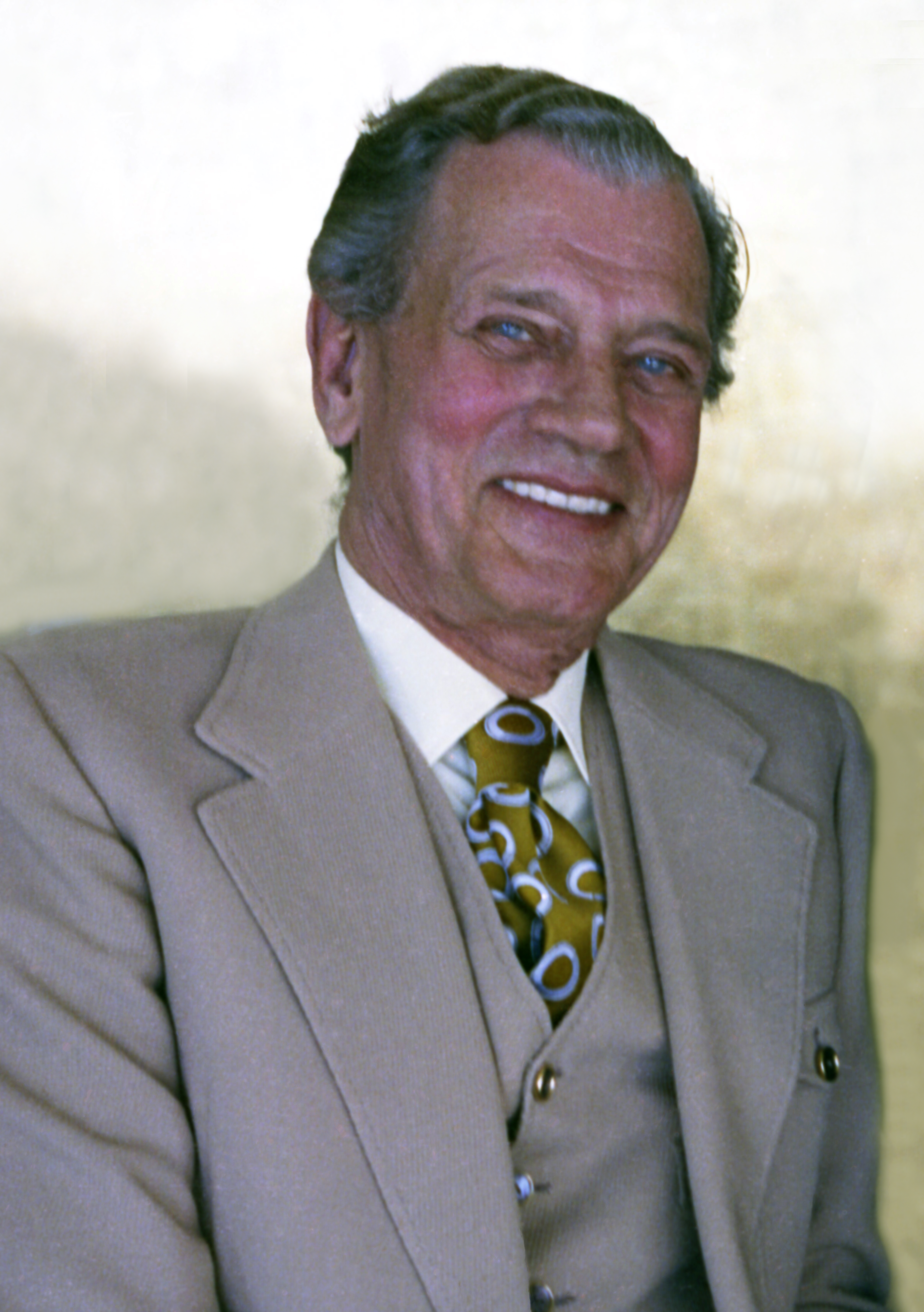 Joseph Cotten, taken at his home in Los Angeles